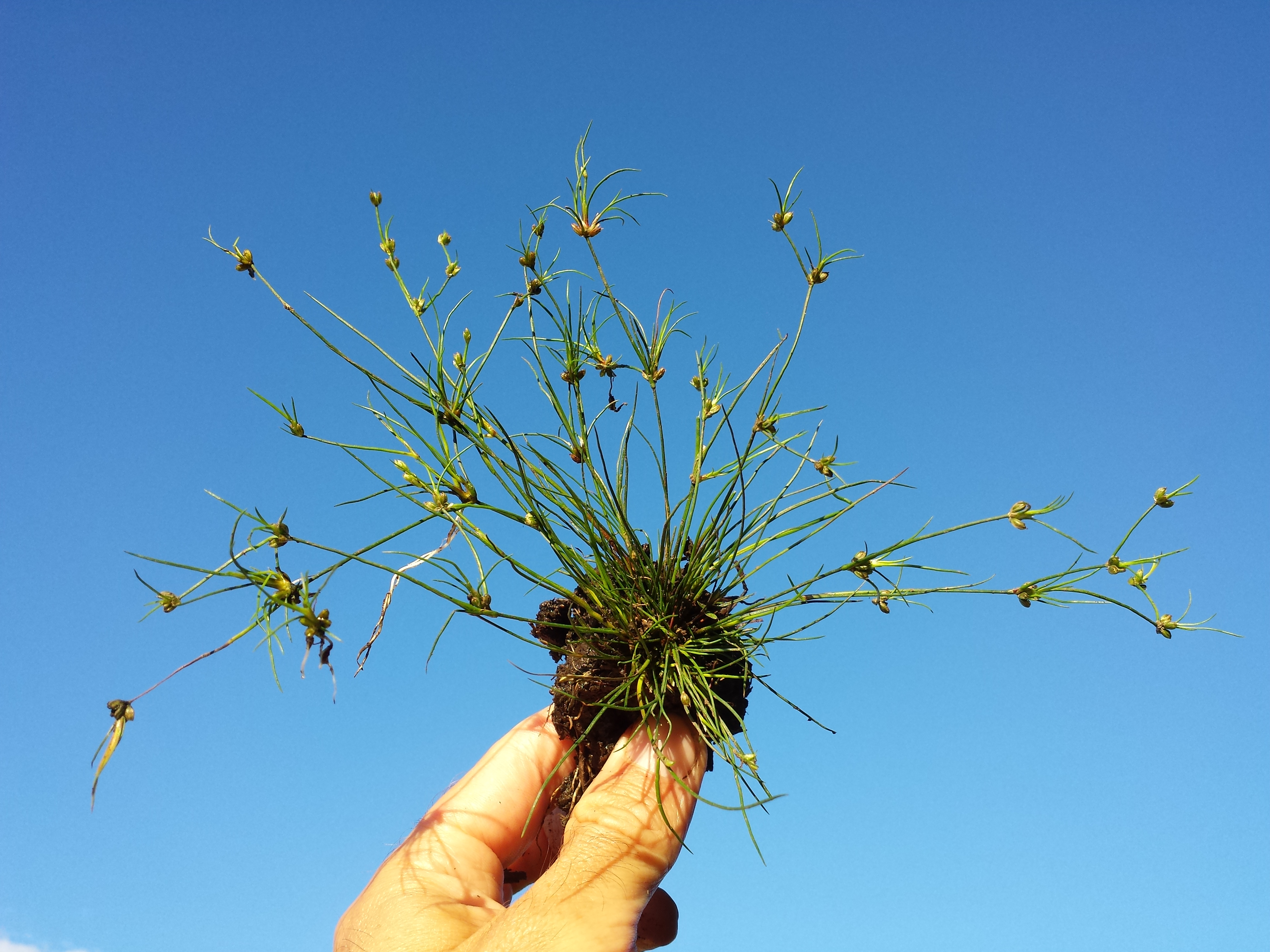 Habitus Taxonym: Juncus bulbosus ss Fischer et al. EfÖLS 2008 ISBN 978-3-85474-187-9 Location: pond to the south of Pyhrabruck, district Gmünd, Lower Austria - ca. 550 m a.s.l. Habitat: ground of a pond